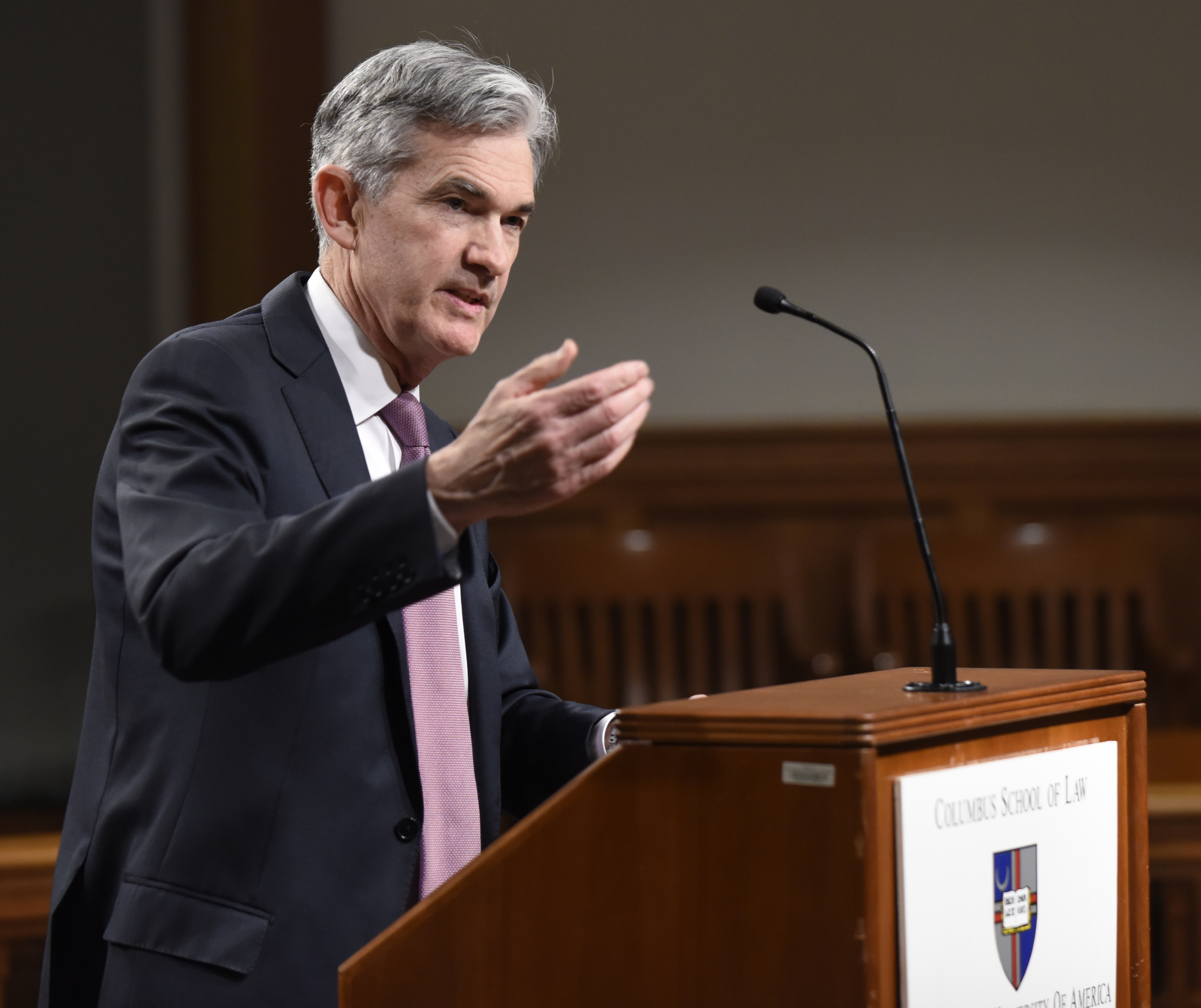 Gov. Powell speaking at Catholic University Law about "Audit the Fed" and other proposals